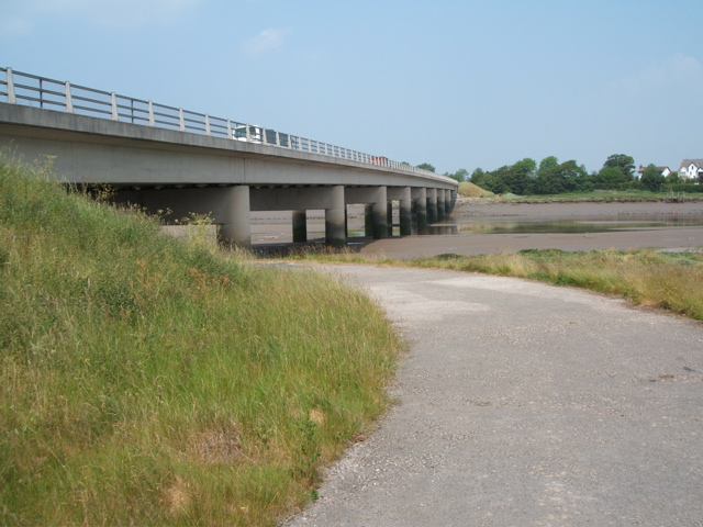 View of the Shard bridge from the South shore of the River Wyre